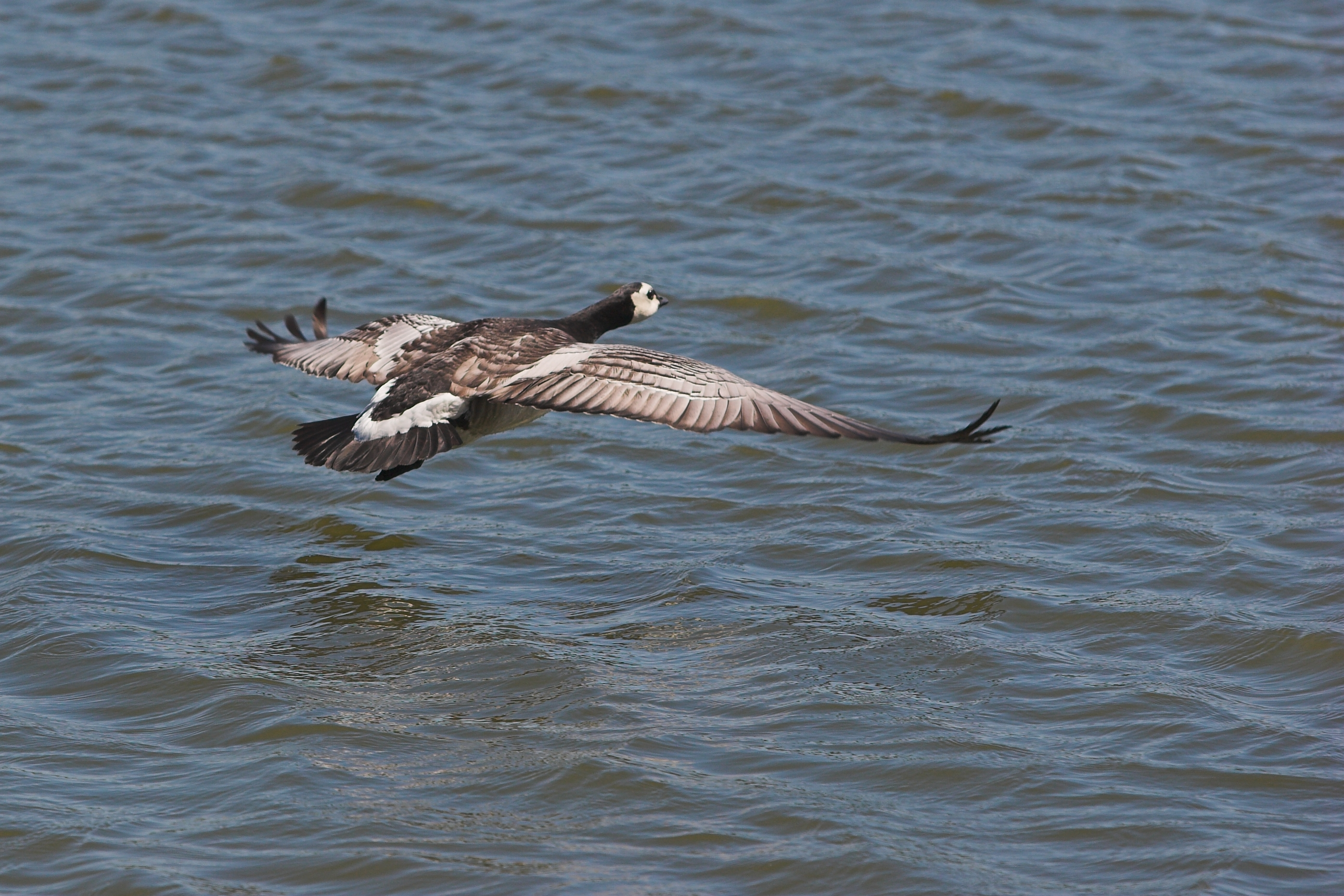 Branta Leucopsis in flight. Photo by Thermos. Many thanks for user MPF for identifying the bird.